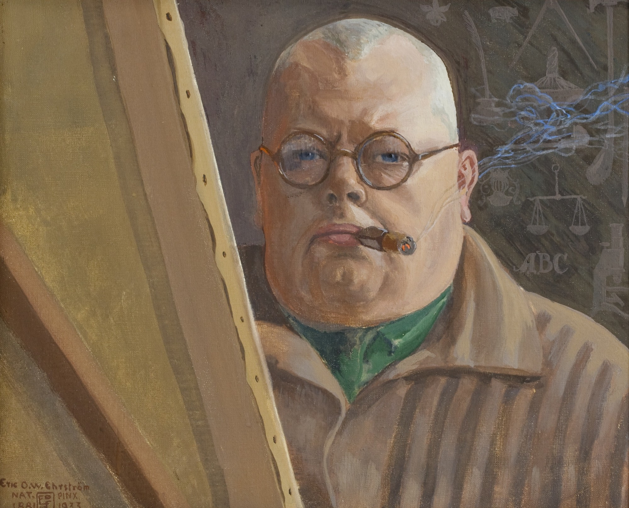 Self-portrait